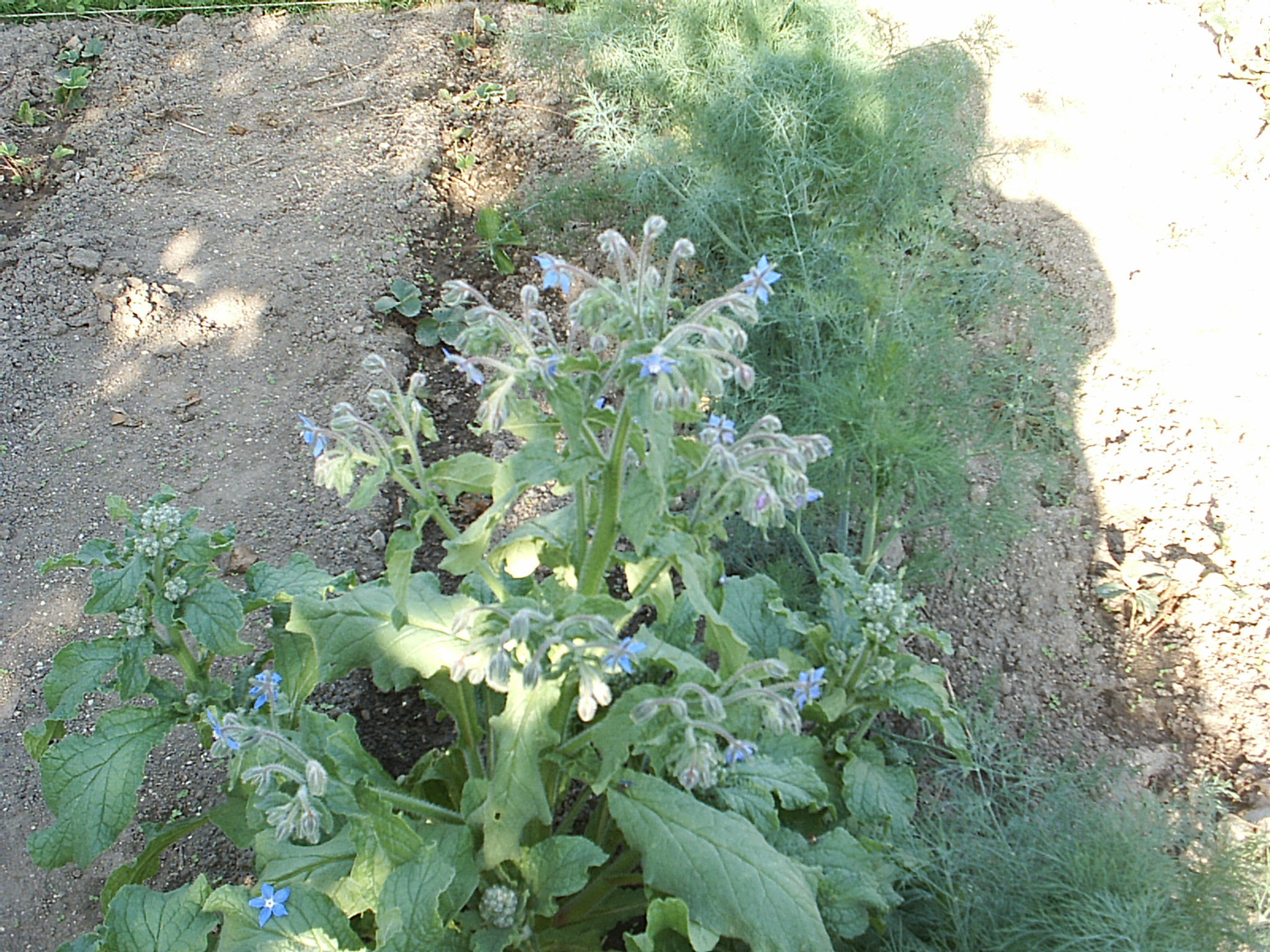 Borago officinalis in a garden in the village Pragsdorf, Germany